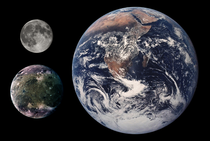 Diameter comparison of the Jovian moon Ganymede, Moon, and Earth. Scale: Approximately 29 km per pixel.